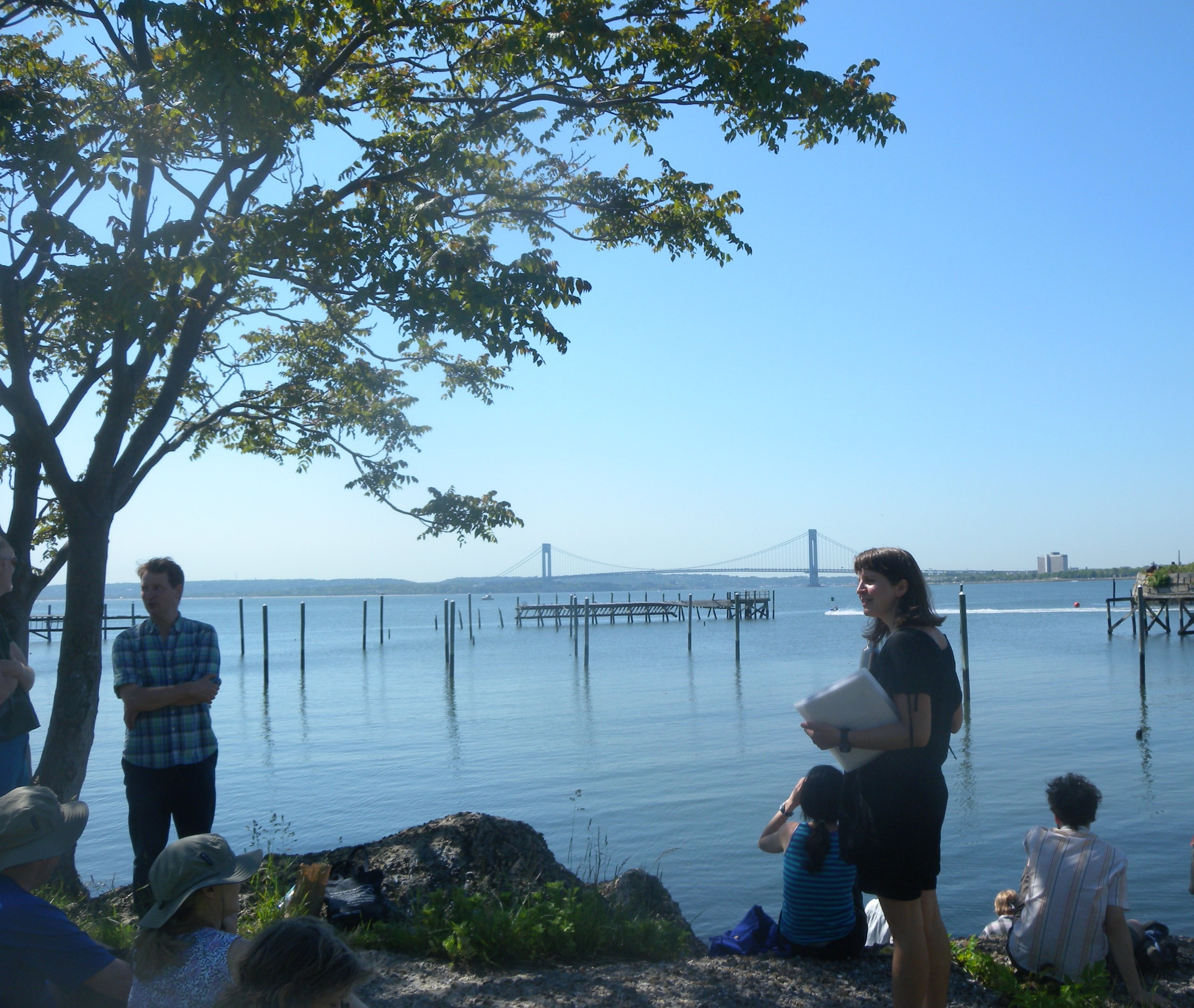 Looking northwest as Prof Johae contemplates Gravesend Bay, on a sunny afternoon.